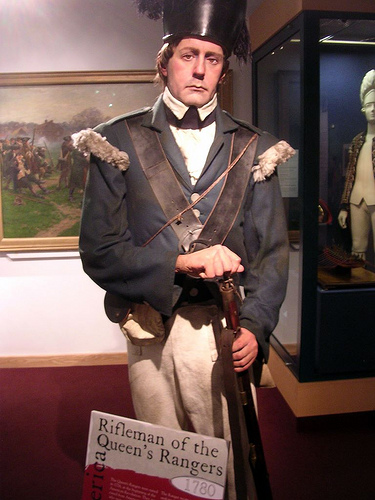 Mannequin dressed as a rifleman of the Queen's Rangers, National Army Museum, London